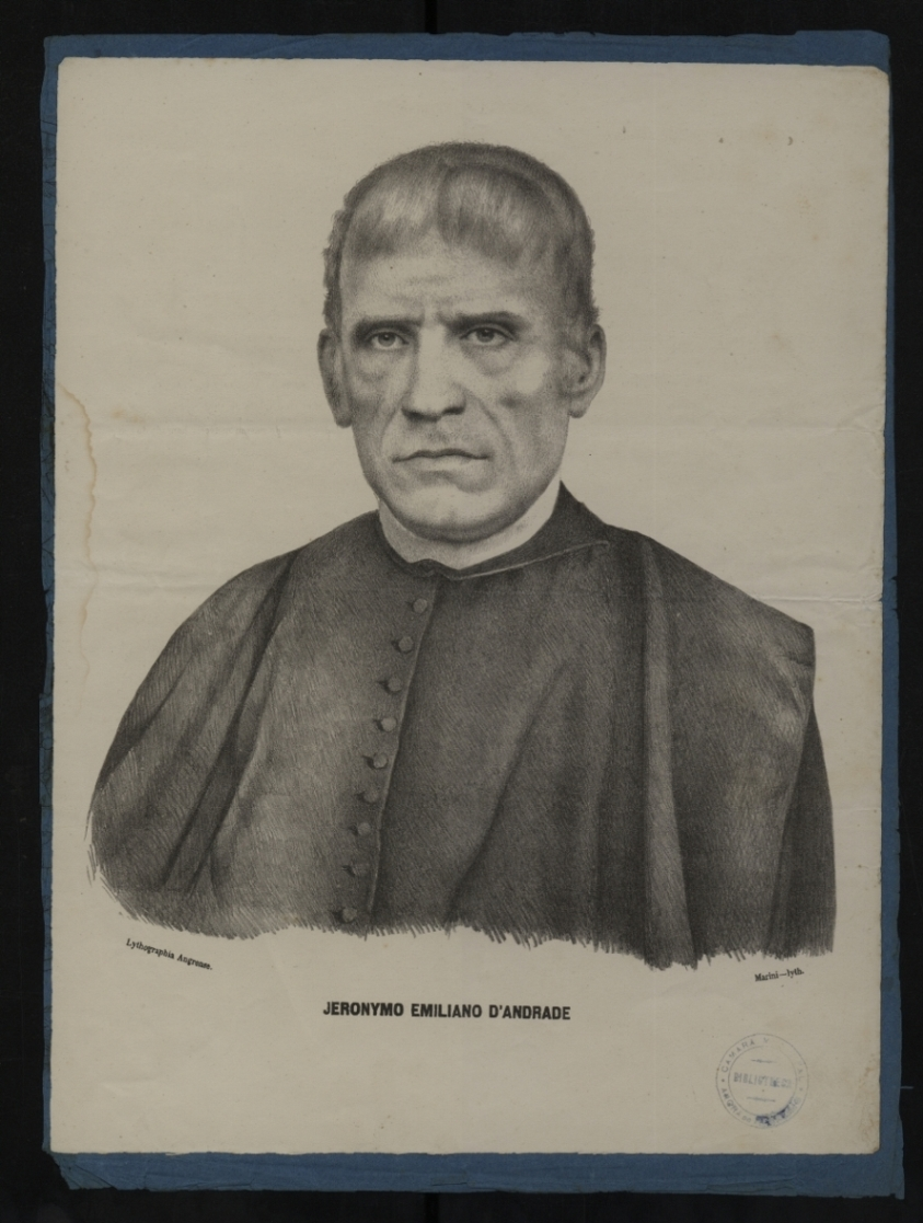 Jerónimo Emiliano de Andrade (1789-1847), historian and author.